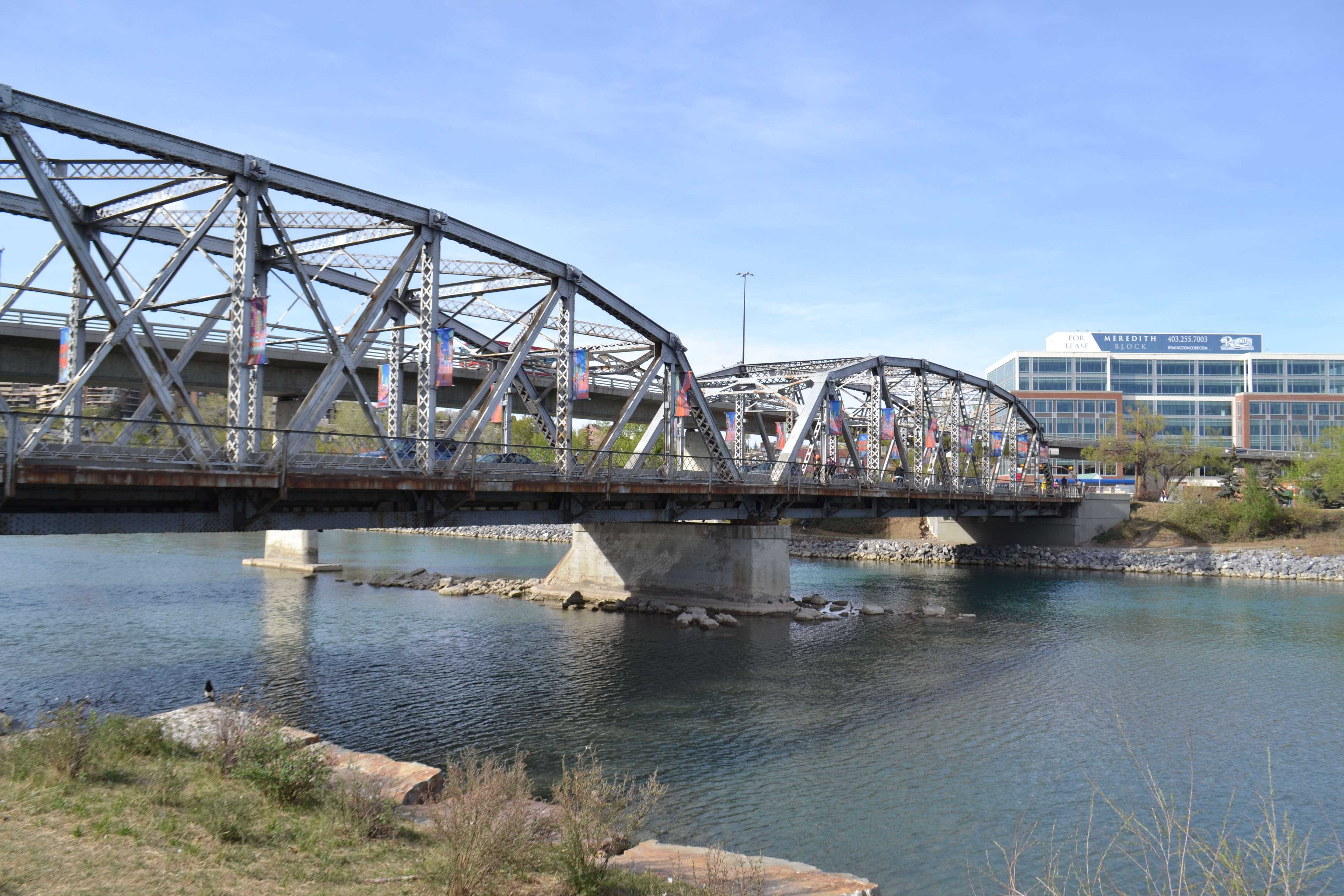 Calgary, April 2016 (22)